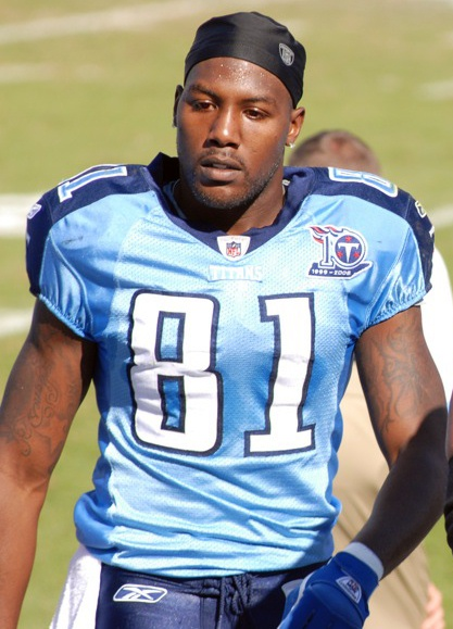 Tennessee Titans wide receiver Brandon Jones on the sidelines during the game against the Green Bay Packers on November 2, 2008 at LP Field.